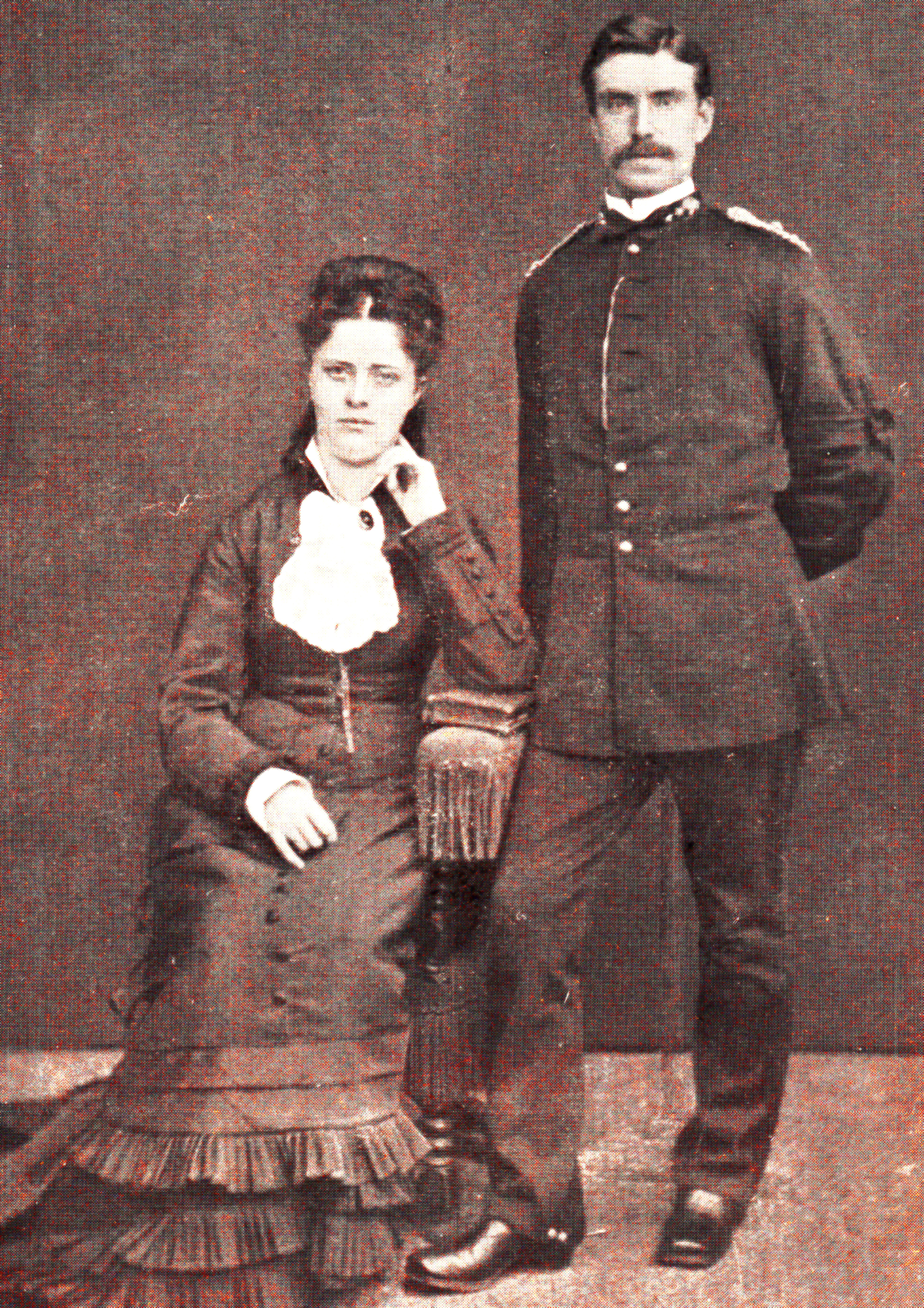 Wouter Cool en echtgenote